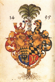 Coat of arms of Württemberg, adopted in 1495 when Württemberg was exalted to duchy.